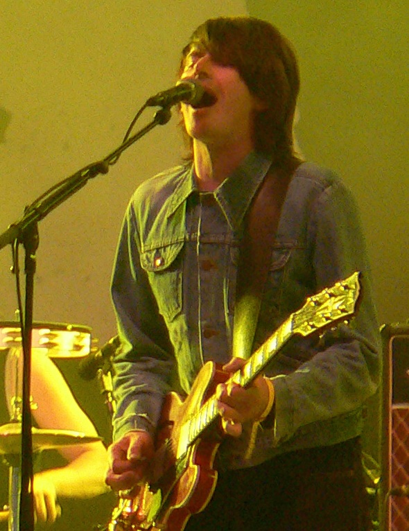 Bernand Butler performing live with The Tears in 2005.